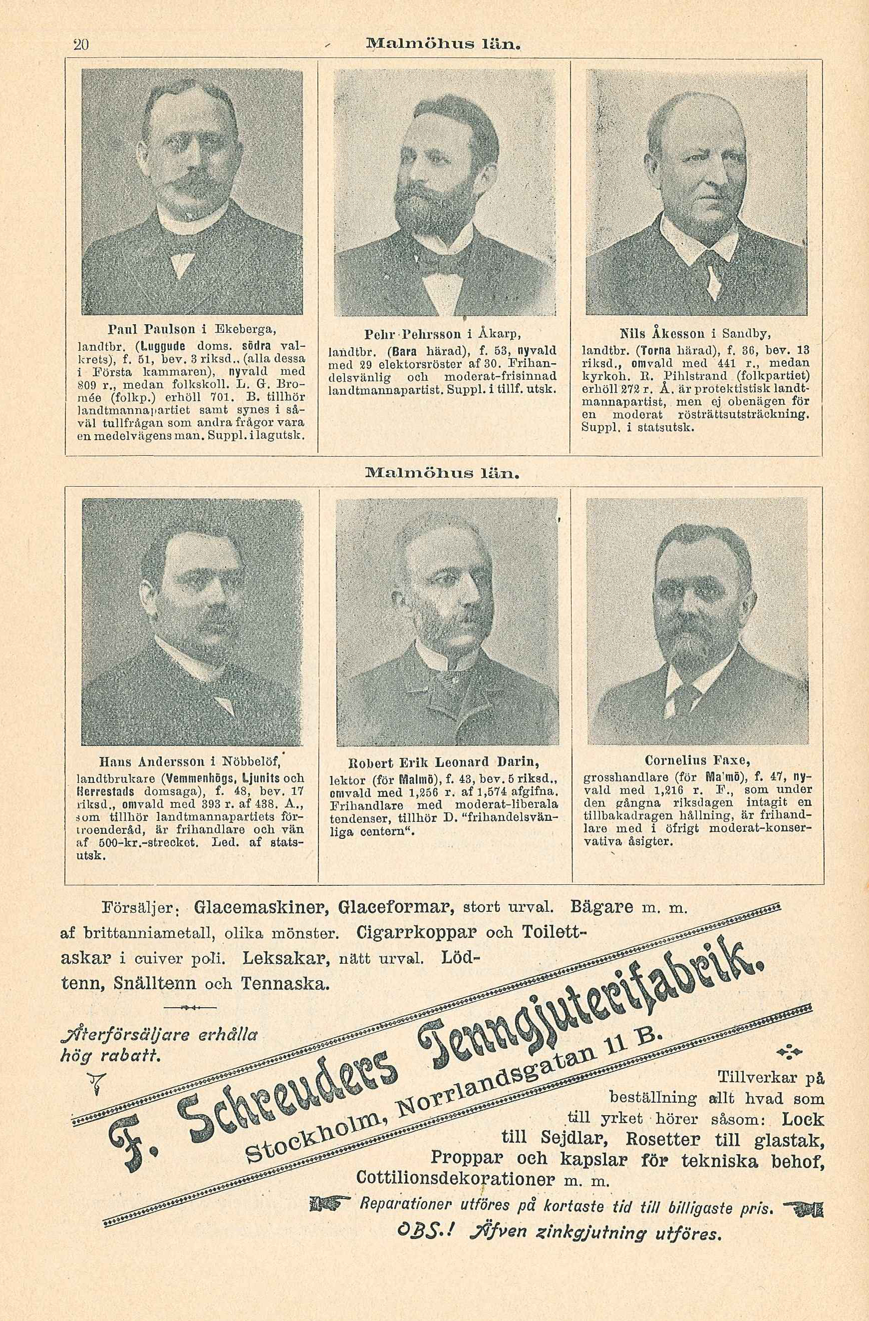 Page 20 of an album featuring portraits of all the members of the second chamber of the Swedish parliament (Sveriges riksdag) elected in 1897. This page featuring parts of the members representing the county of Malmöhus.